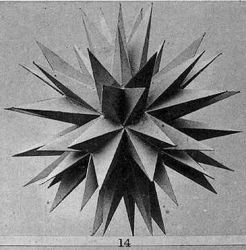 Model of the final stellation of the icosahedron. Taf. XI, Fig. 14 from Brückner, Max (1900). Vielecke und Vielflache: Theorie und Geschichte. Leipzig: B.G. Treubner. ISBN 978-1418165901.